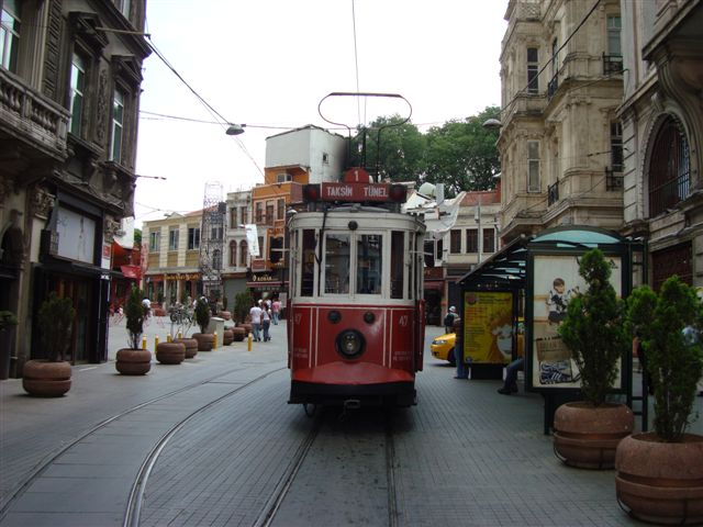 Nostalgic tram in Istanbul (Tünel-Taksim)